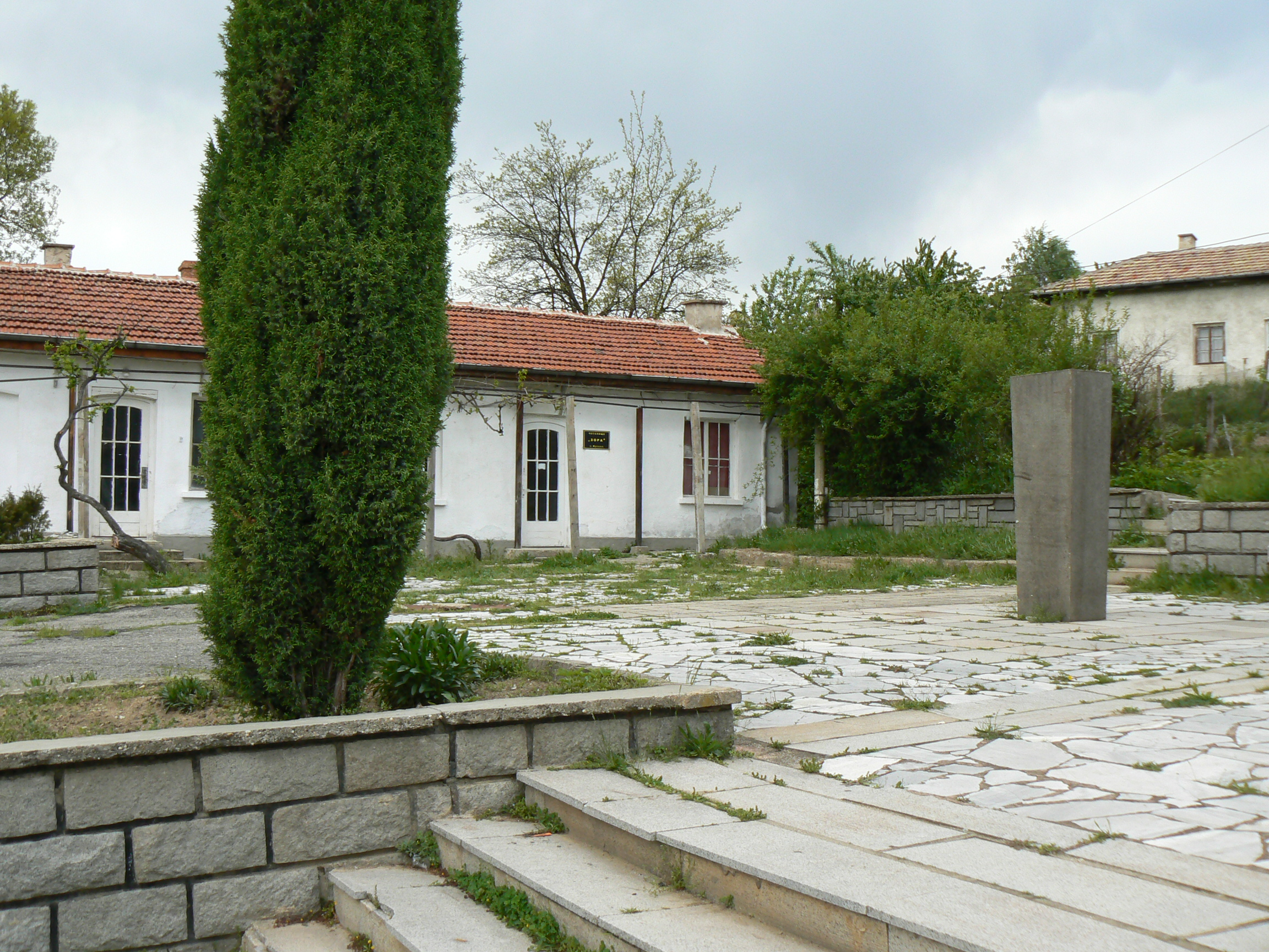 Library "Zora" in village Muhovo, Bulgaria